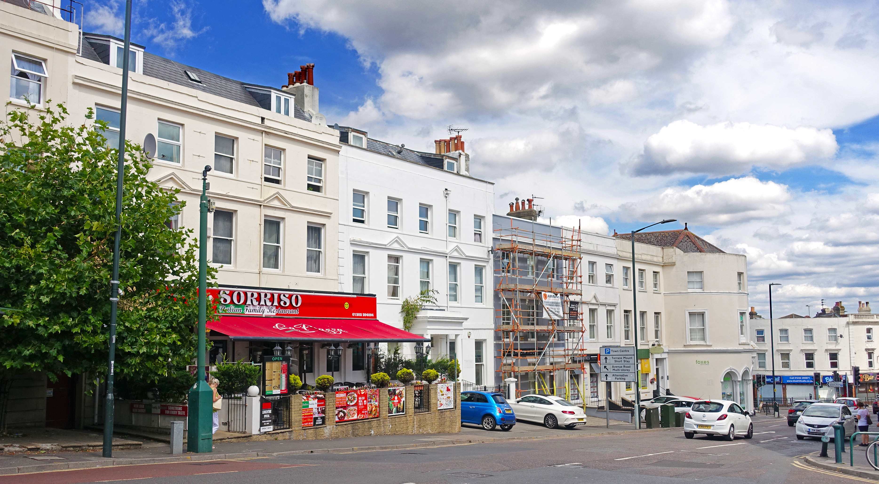 Commercial Road, Bournemouth.